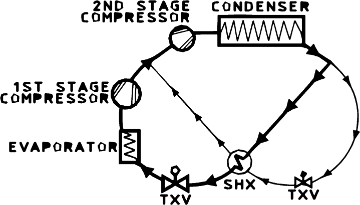 Refrigeration Cycle Set Up in Booster With Sobcooling